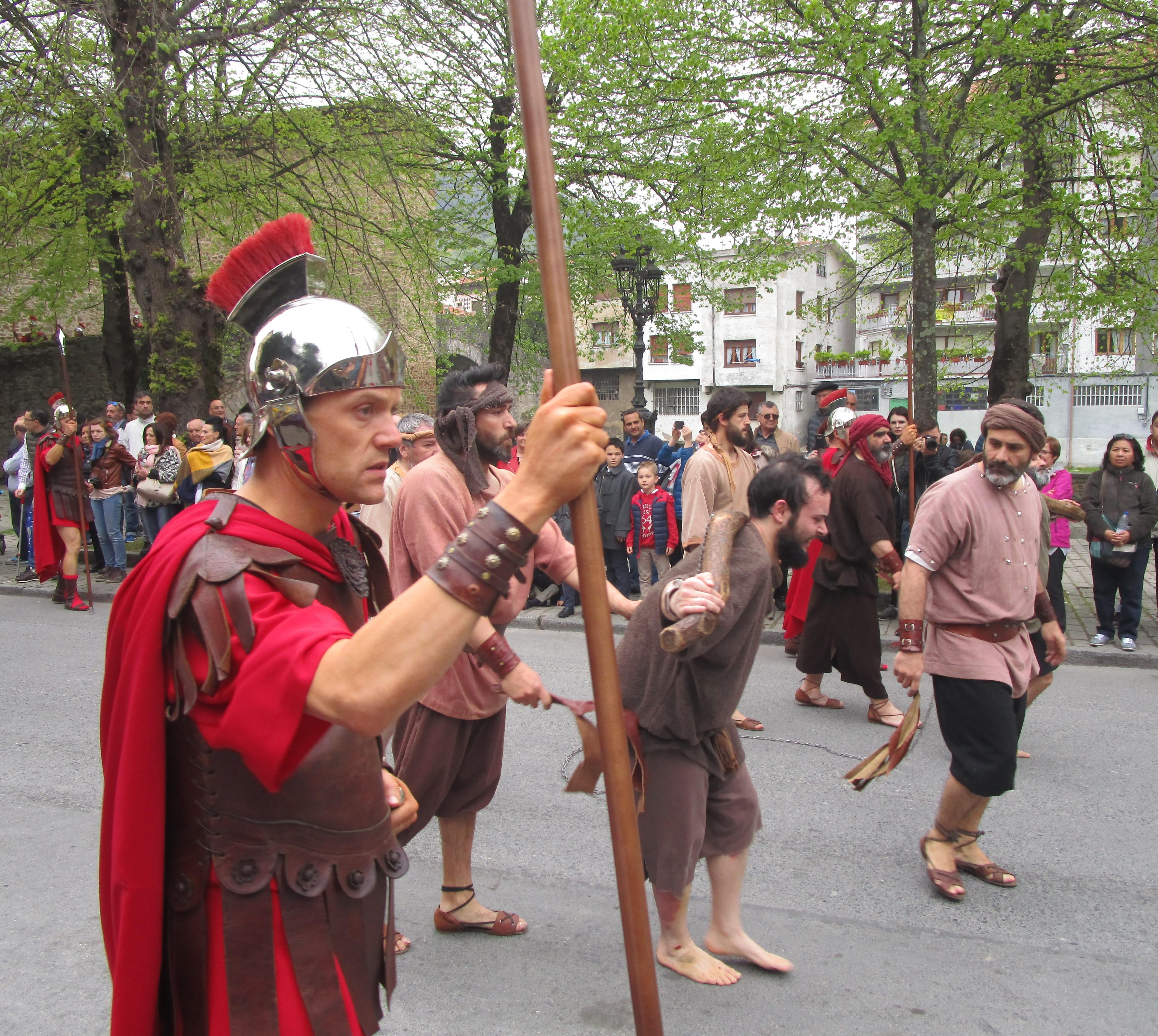 One of the thieves to be crucified besides Jesus, at the Passion play of Balmaseda (Biscay, Basque Country, Spain), on Good Friday 2017. On the background, the Old Bridge of Balmaseda.